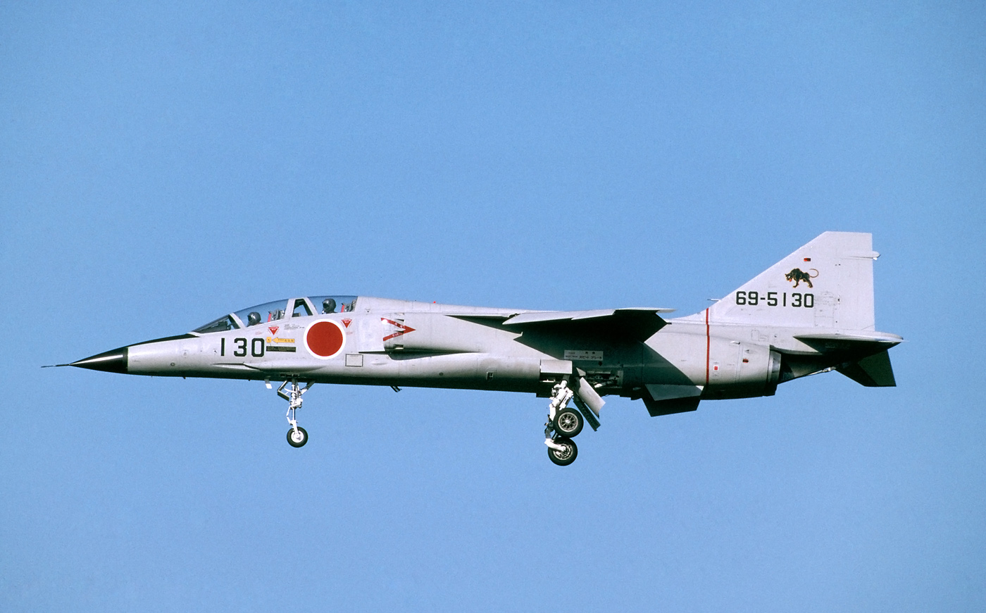 Misawa, October 1994. T-2B of 8 Hikotai. The last T-2 trainers were replaced by F-2s (Japanese 'F-16s') in 2002.